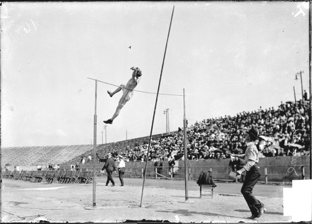 Athlete LeRoy Samse clearing the bar at the 1904 Olympic Games Chicago Daily News negatives collection, SDN-002624. Courtesy of the Chicago Historical Society. Taken in 1904 (